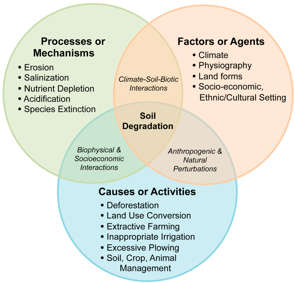 Soil degradation venn diagram, shows some attributing factors, causes, and effects.